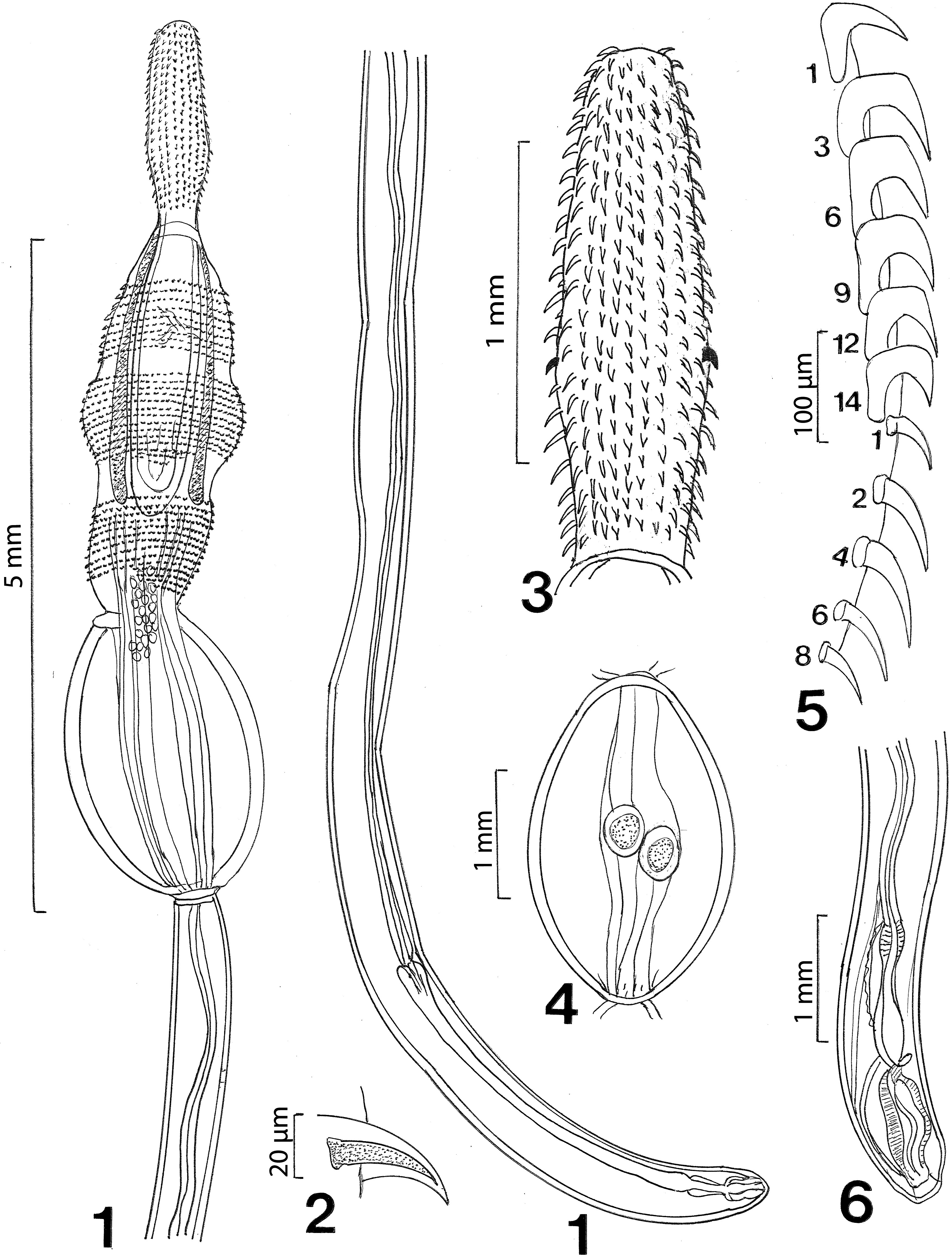 Figures 1-6 of the paper Line drawings of male and female cystacanths of Neoandracantha peruensis from ghost crabs, Ocypode gaudichaudii, from the Pacific Ocean off Peru. 1. Allotype female; note embryonic eggs between foretrunk and midtrunk and developing cephalic ganglion, female reproductive structures, and genital ligaments. 2. A trunk spine from the posterior field of foretrunk spines. 3. The proboscis of paratype female in Figure 1. Note the ventral robust hook no. 14 opposite the normal dorsal hook on the other side; boths hooks are blackened. This is a consistent characteristic of male and female specimens of N. peruensis. 4. The midtrunk of the holotype male showing the characteristic disposition of the diagonal testes. 5. One longitudinal row of selected representative hooks and spines numbered from anterior. 6. The posterior end of the hindtrunk of the male holotype showing the developing bursa and Saefftigen's pouch attached to the posterior end of the genital ligament which runs through the trunk.